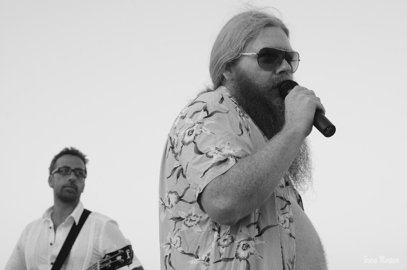 Benju Hughes 10. July 2011 Carolina Beach